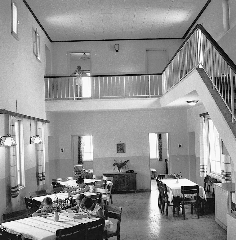 Givat Brenner Children Education, Education in Israel